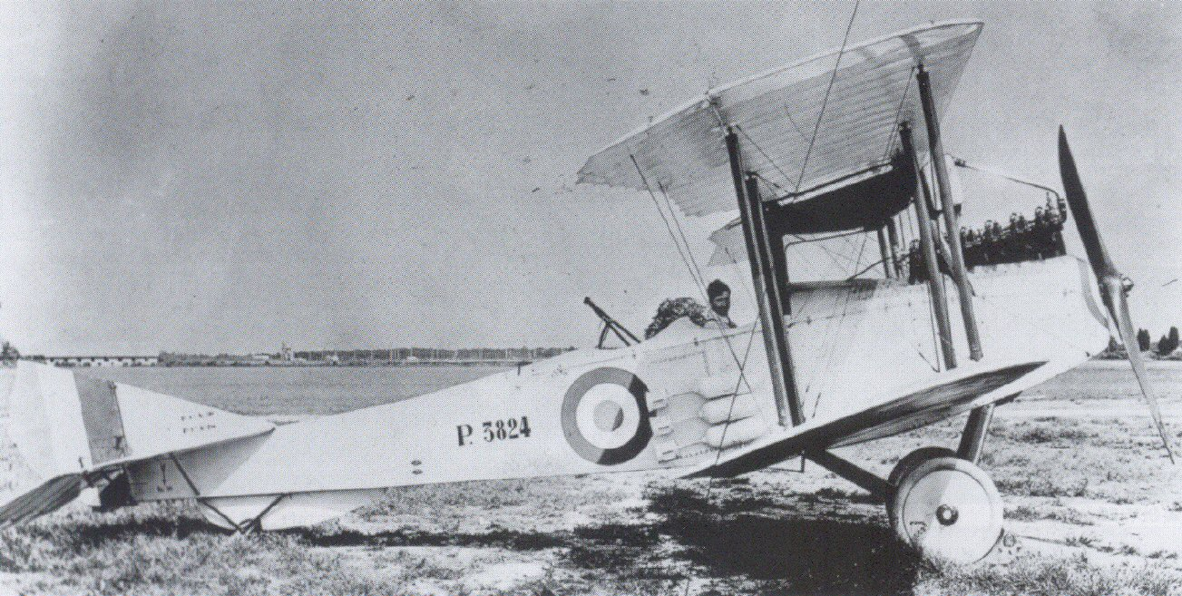 Pomilio PD no. P.3824 tested in USA